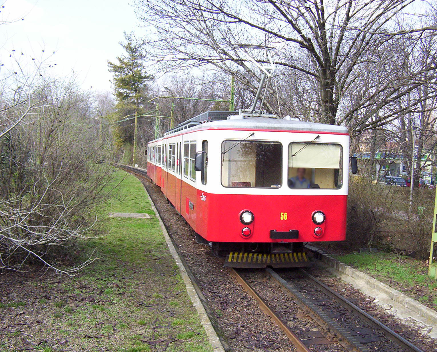 Simmering Graz Pauker AG type cog wheel train